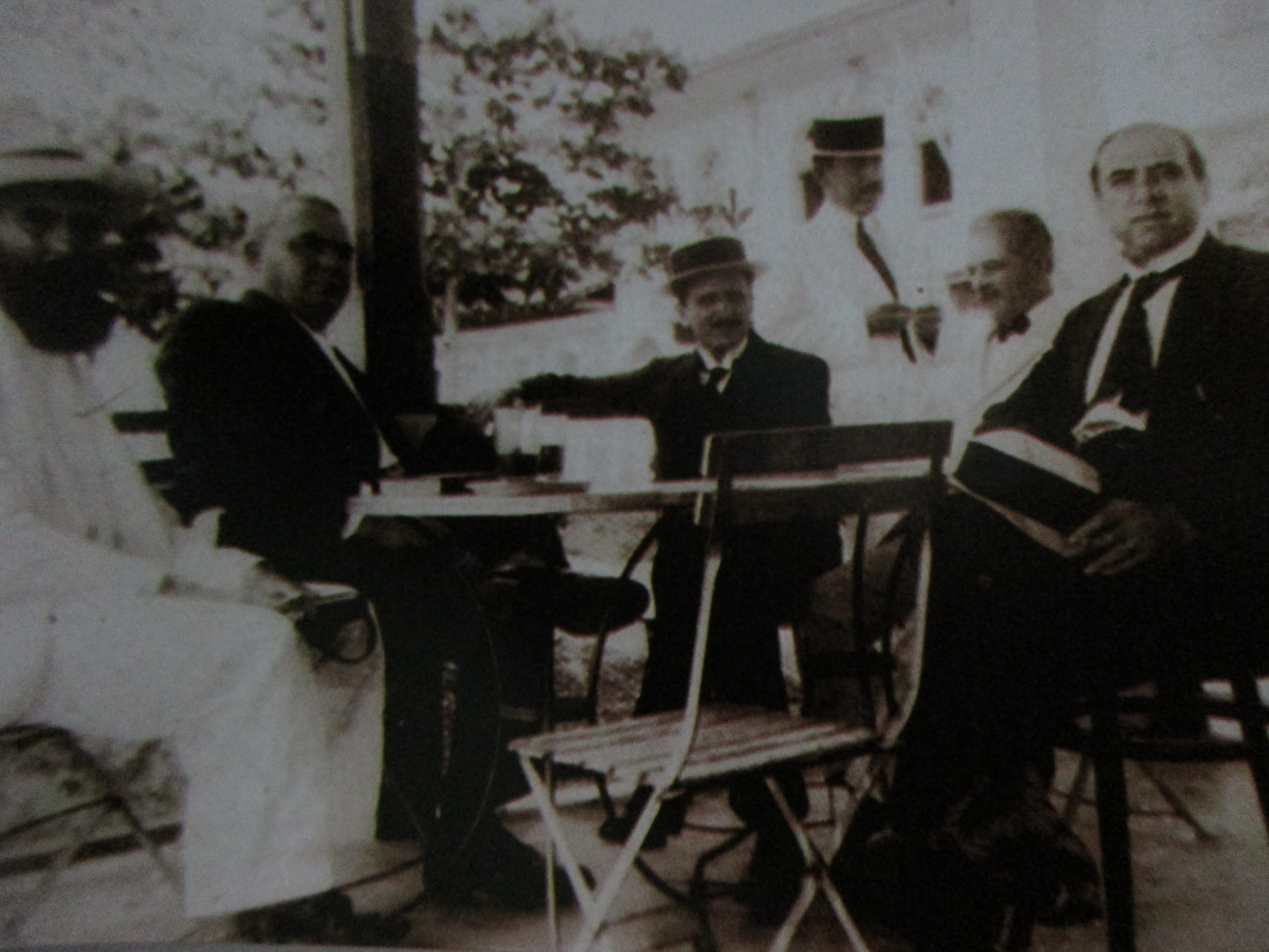 Scene with caucheros. Ernesto Melena and Car, Reiss ks in the middle of the jungle of Samiria.